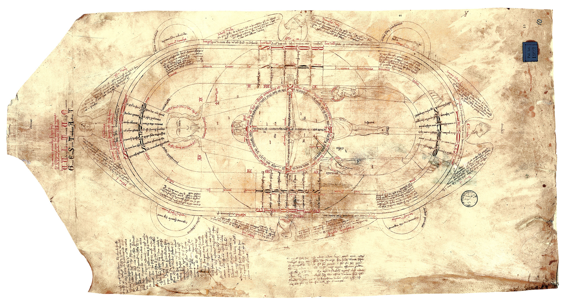 Diagram with Crucifixion by Opicinus de Canistris,, Avignon, France, 1335–50